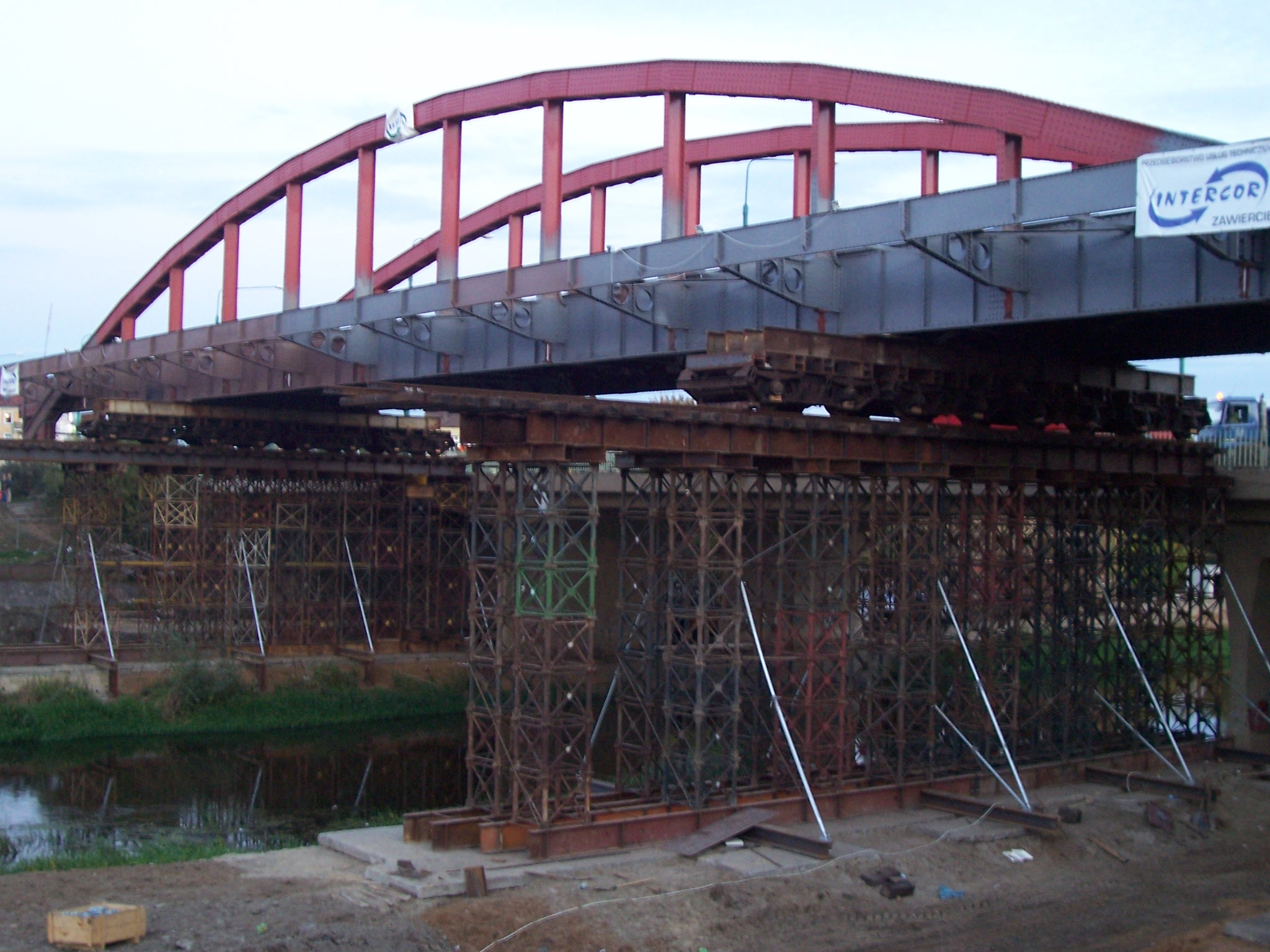 new Cybiński Bridge (renamed as Jordan Bridge) in Poznań after moving over Bridge of Mieszko I